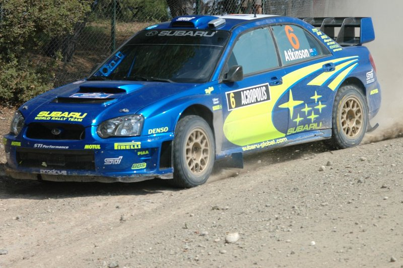 Chris Atkinson driving a Subaru Impreza WRC at the 2005 Acropolis Rally.